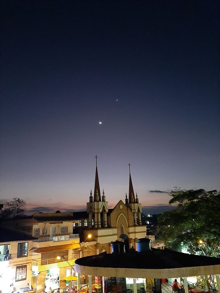 We show the beauty of Segovia Antioquia